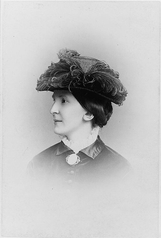 Anna Wilhelmina Hierta Retzius (1841–1924), Swedish philanthropist, head-and-shoulders portrait, facing left. (Title devised by Library staff.) One photographic print on carte de visite mount. Written on verso: Anna Hierta-Retzius from Stockholm with best wishes of the season and kindest rememberences to ... Lewall(?) and all the American friends who remember her still.